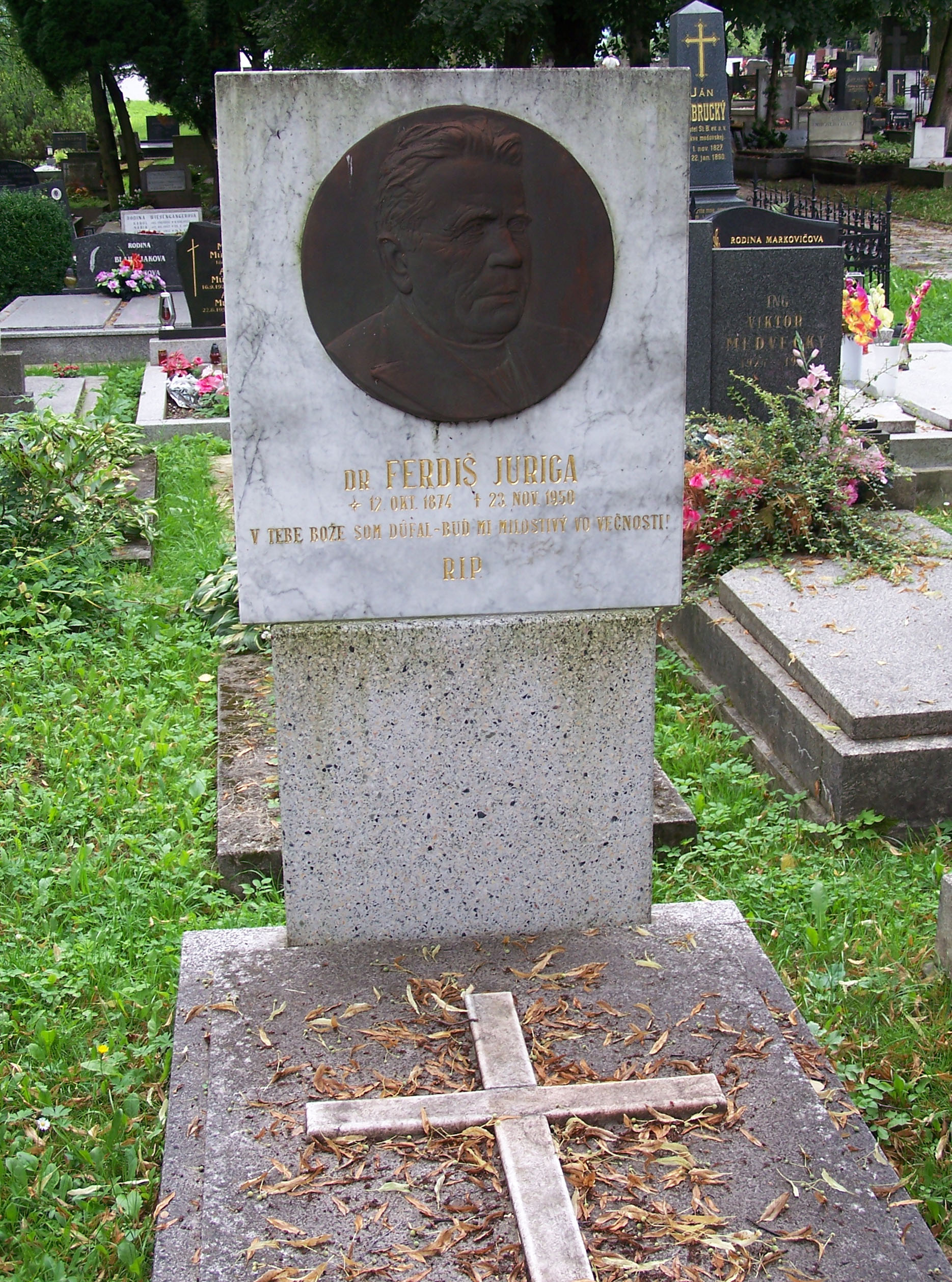 Grave of Ferdiš Juriga at the National Cemetery in Martin, Slovakia